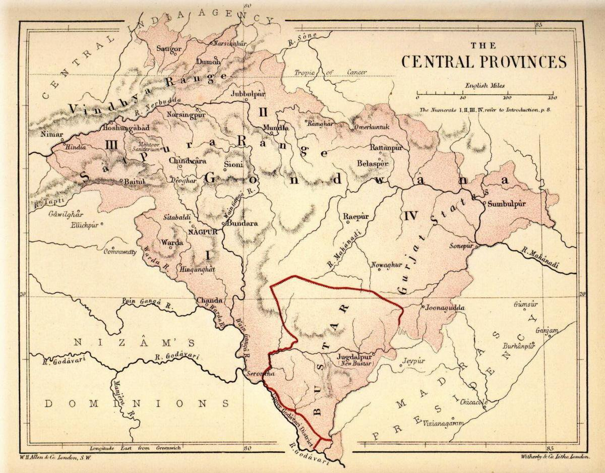 Map of "Central Provinces" from Pope, G. U. (1880). Text-book of Indian History: Geographical Notes, Genealogical Tables, Examination Questions London: W. H. Allen & Co. Pp. vii, 574, 16 maps.